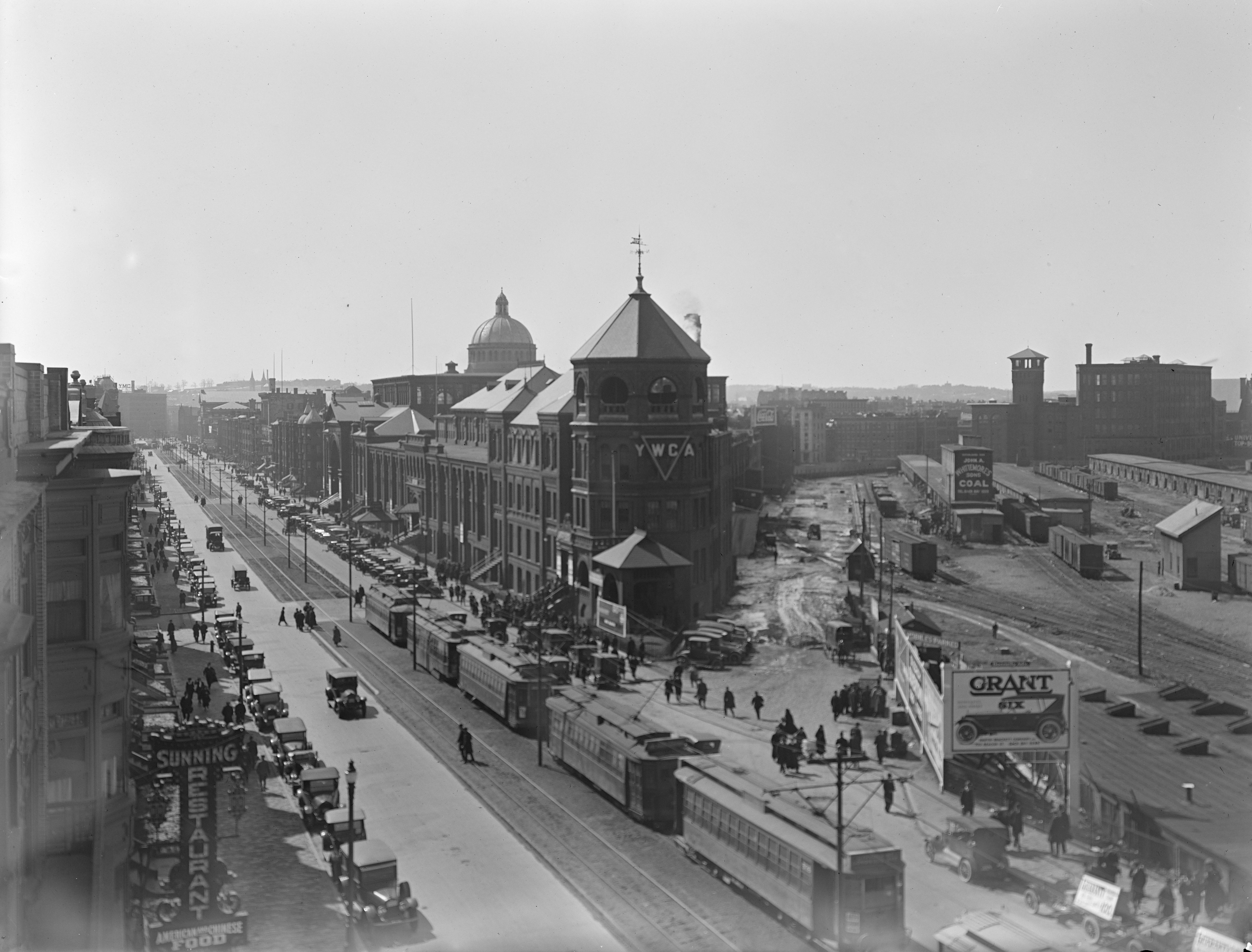 A line of outbound streetcars in front of the Mechanics Hall in March 1920